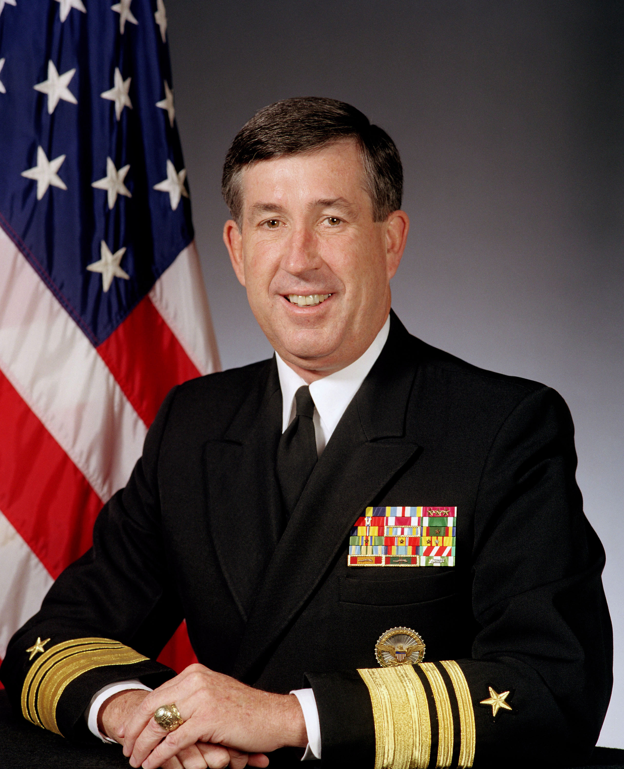 VADM Paul G. Gaffney II, CHIEF of naval Research (uncovered), 06/12/2000